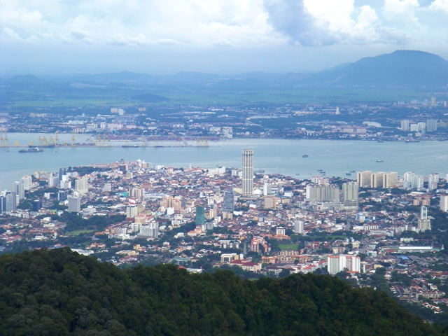 A panoramic view of Georgetown, seen from the Penang Hill, Georgetown (Malaysia).